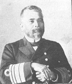 Tsunoda Hidematsu is an Imperial Japanese Navy Vice Admiral